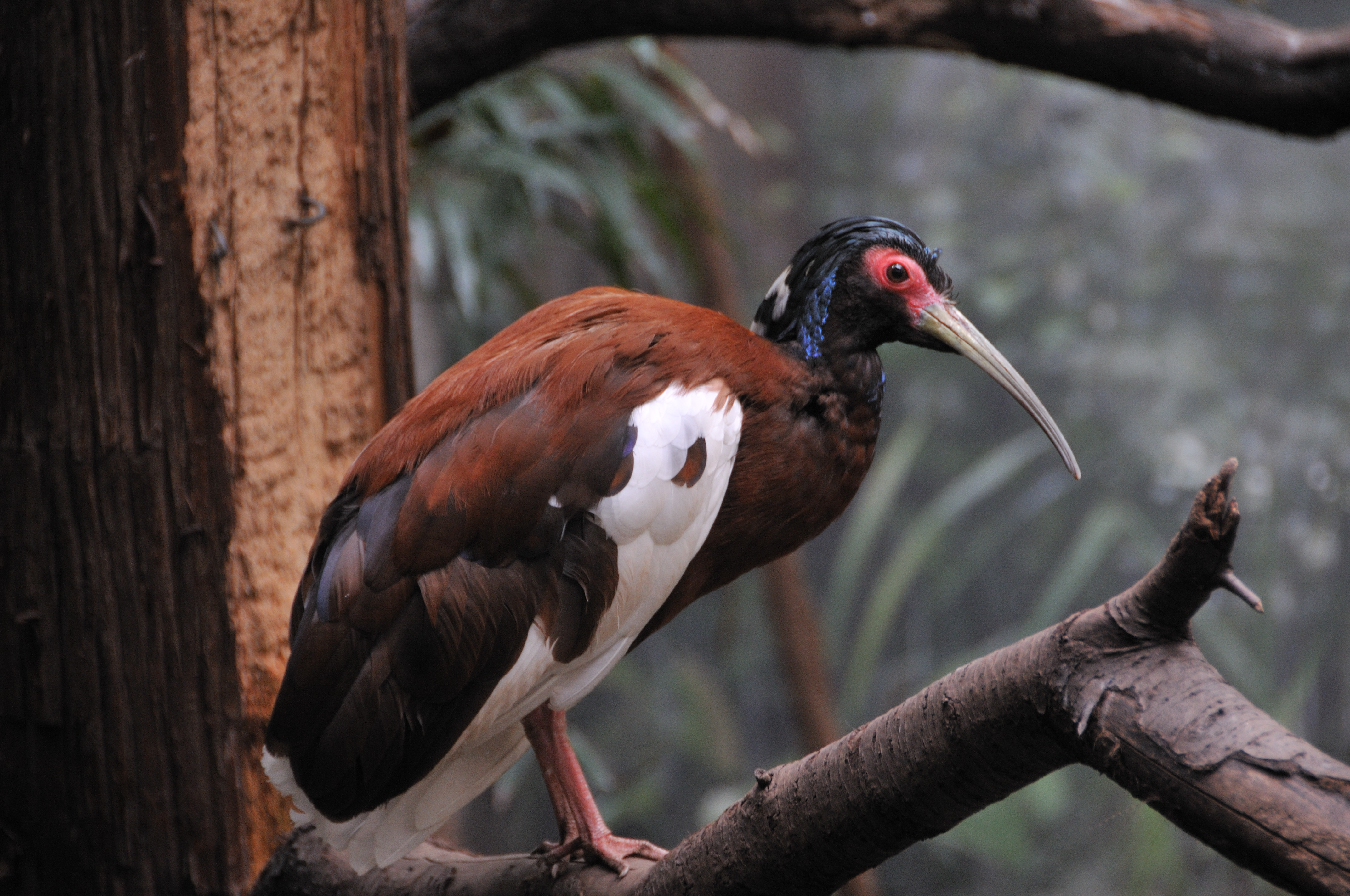 Madagascar Crested Ibis, also known as the White-winged Ibis or Crested Wood Ibis at Bronx Zoo, USA.